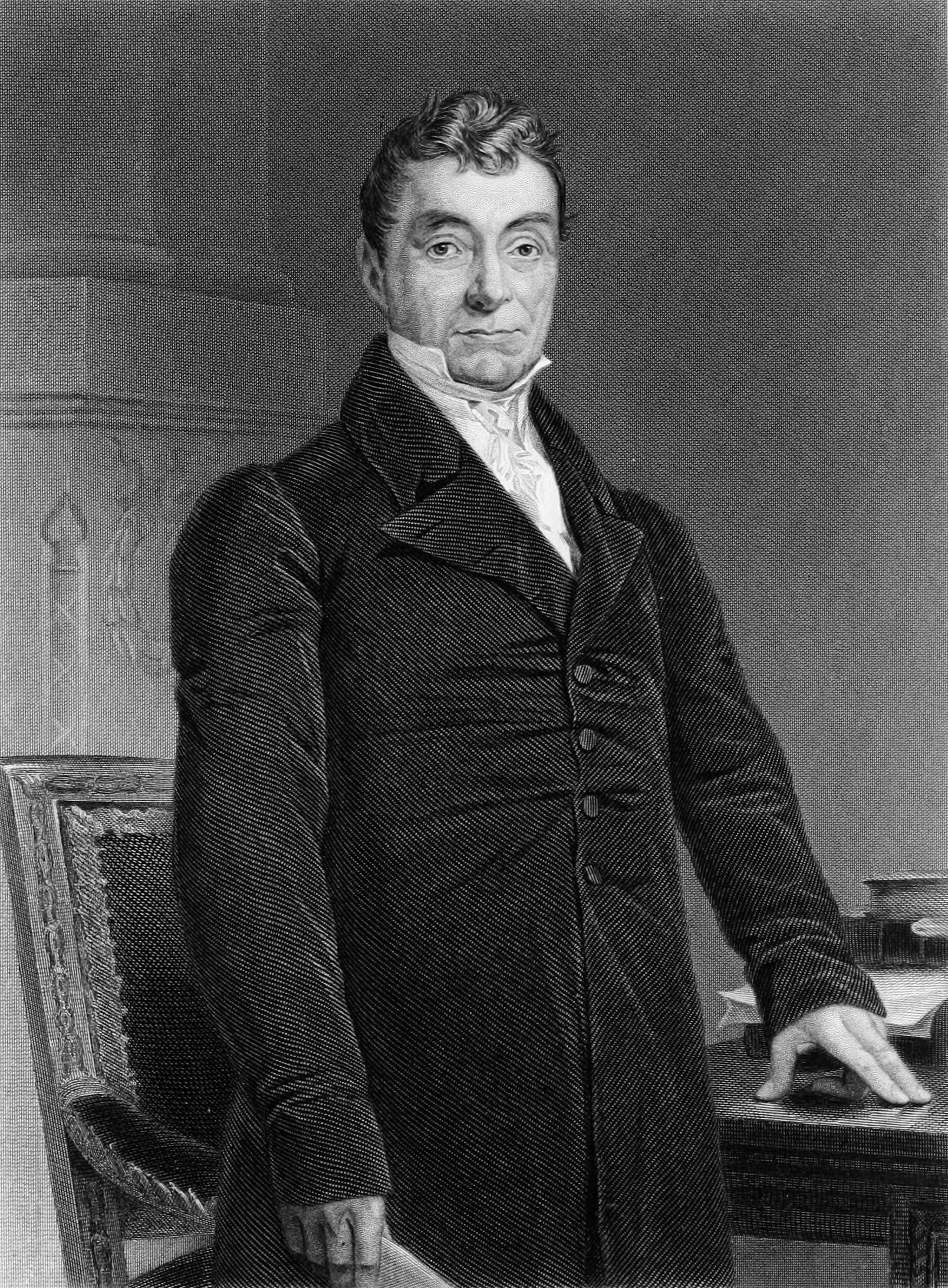 From [1], in the public domain 17:12, 31 December 2002 Magnus Manske 350x486 (47,886 bytes) (From [ in the :en:public domain )